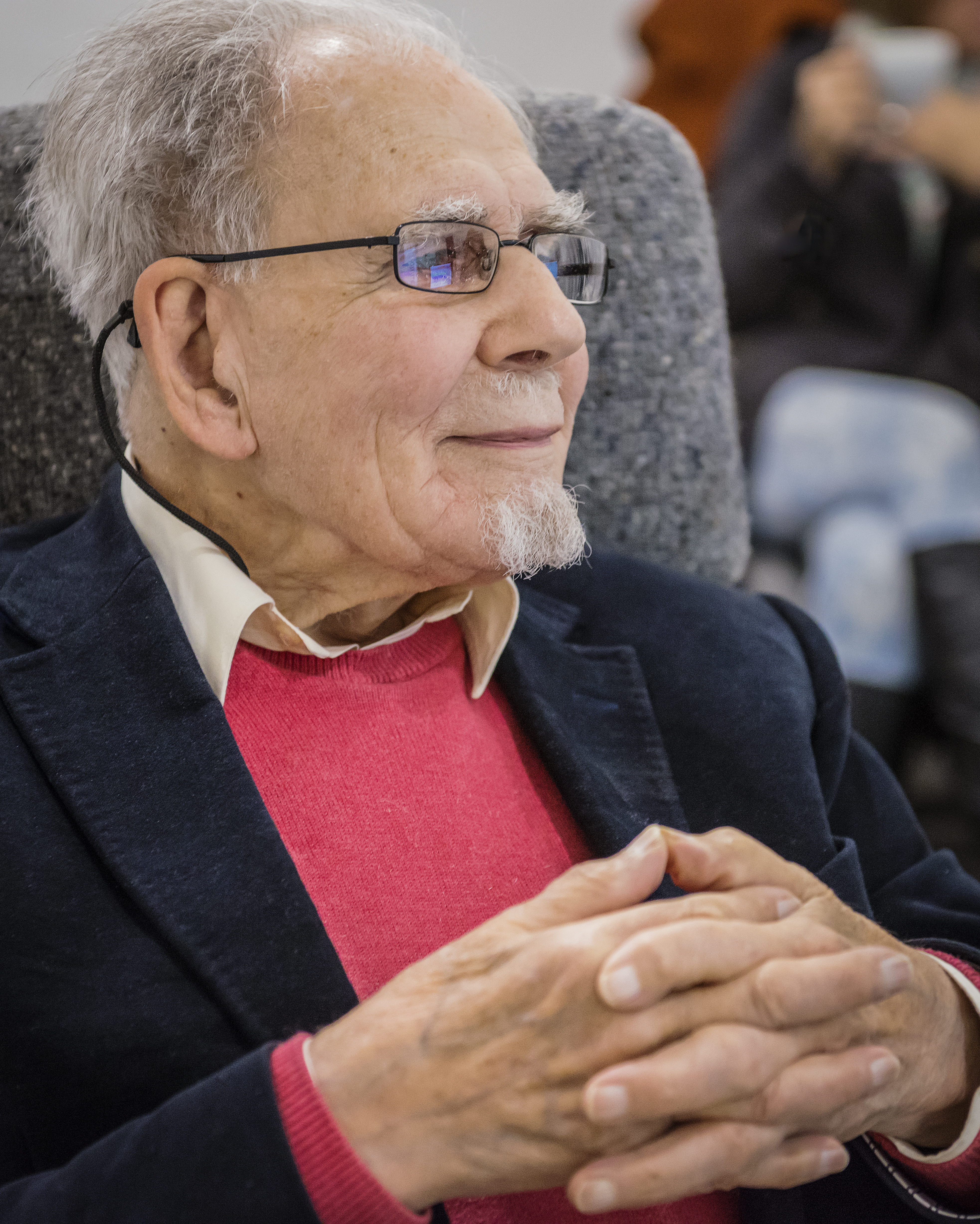 A candid, yet characterful, image of Stephen Wilkinson during the recording of his English songs, at Wyastone Hall